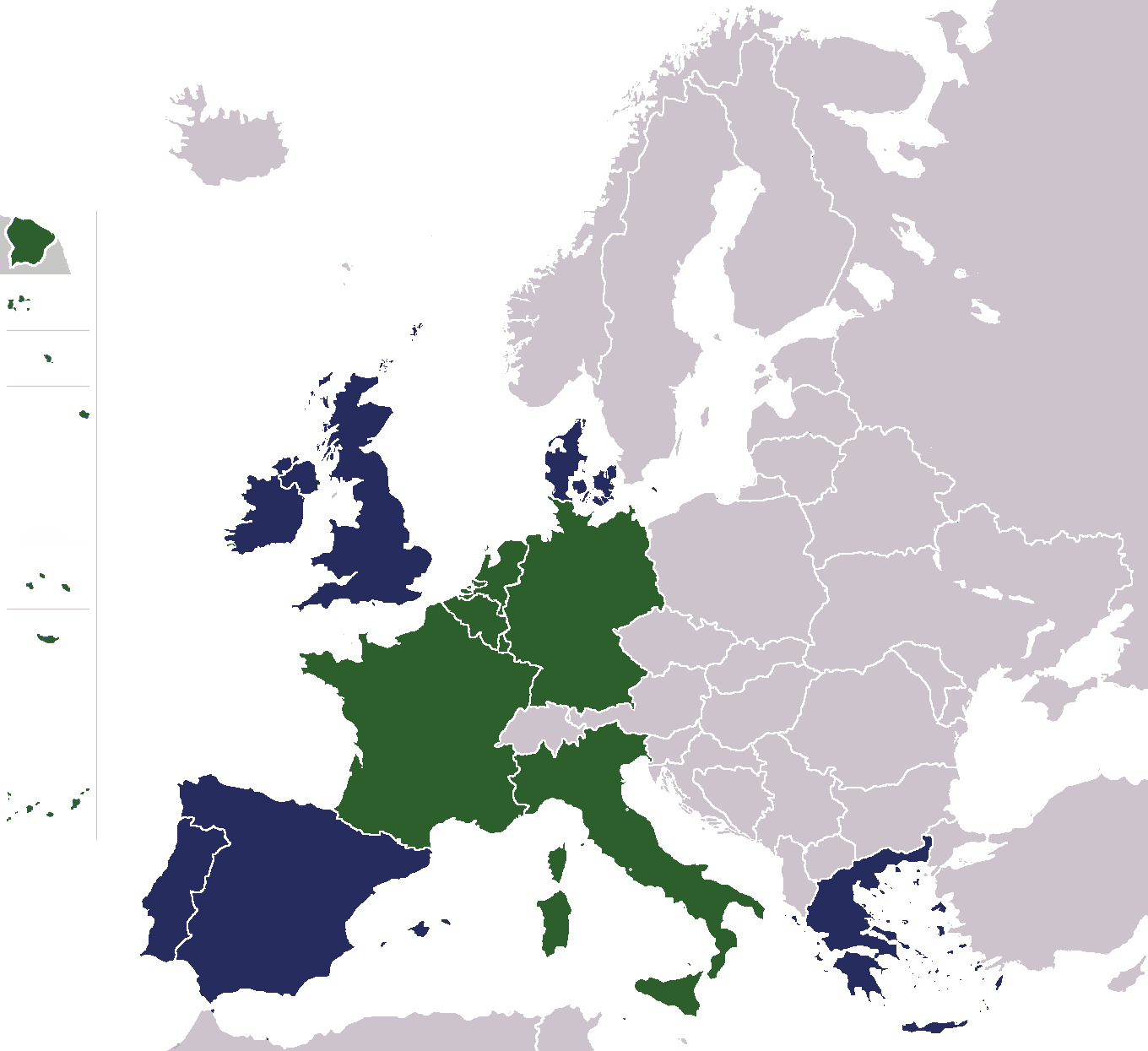 Map of the European Union, enlargements upto 1992